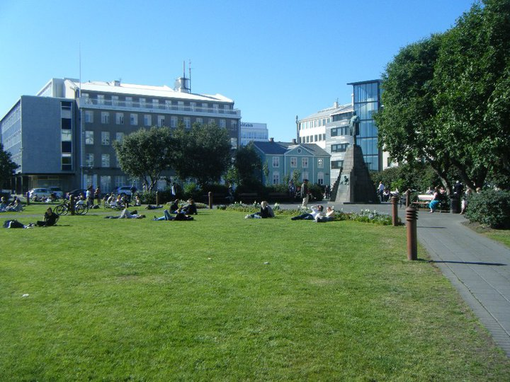 Picture from 2010